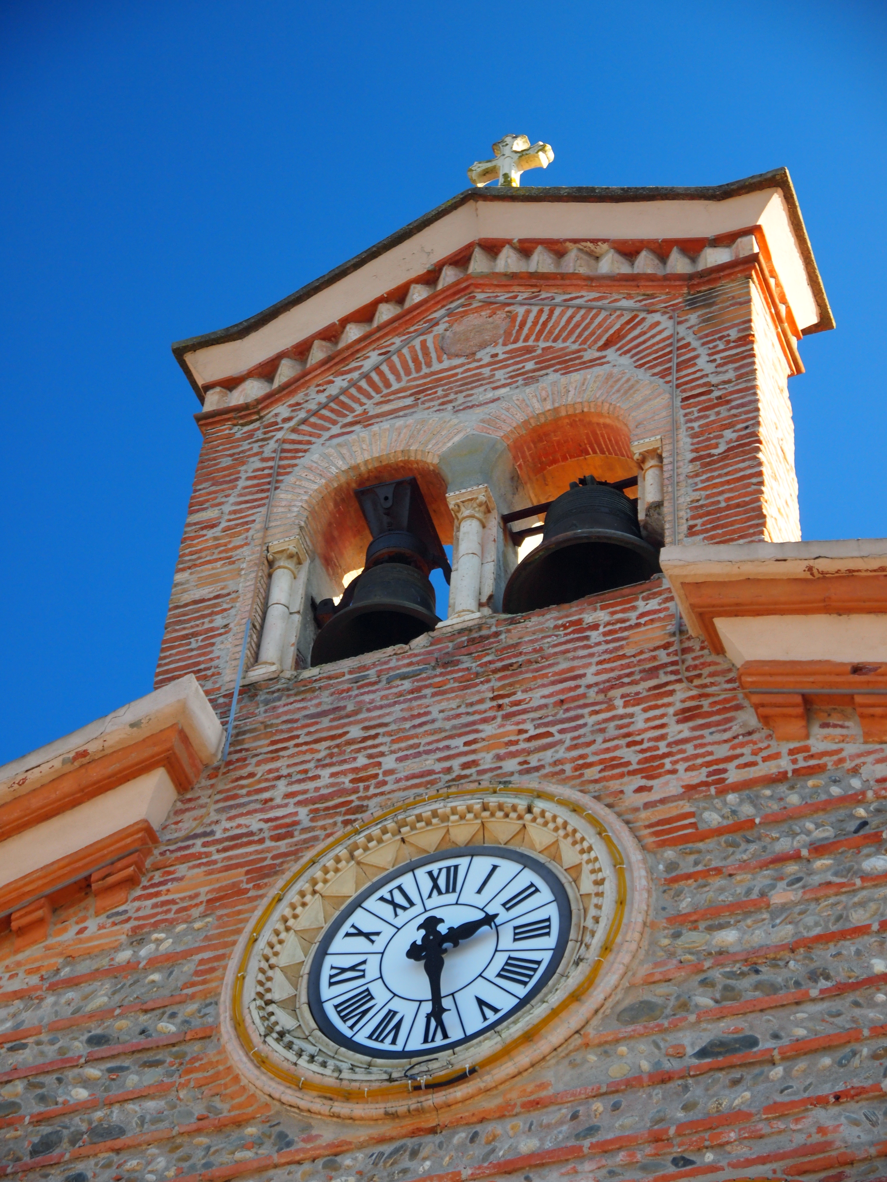 Belfry of the Saint Bruno Church in Roquettes (France, Midi-Pyrenees)